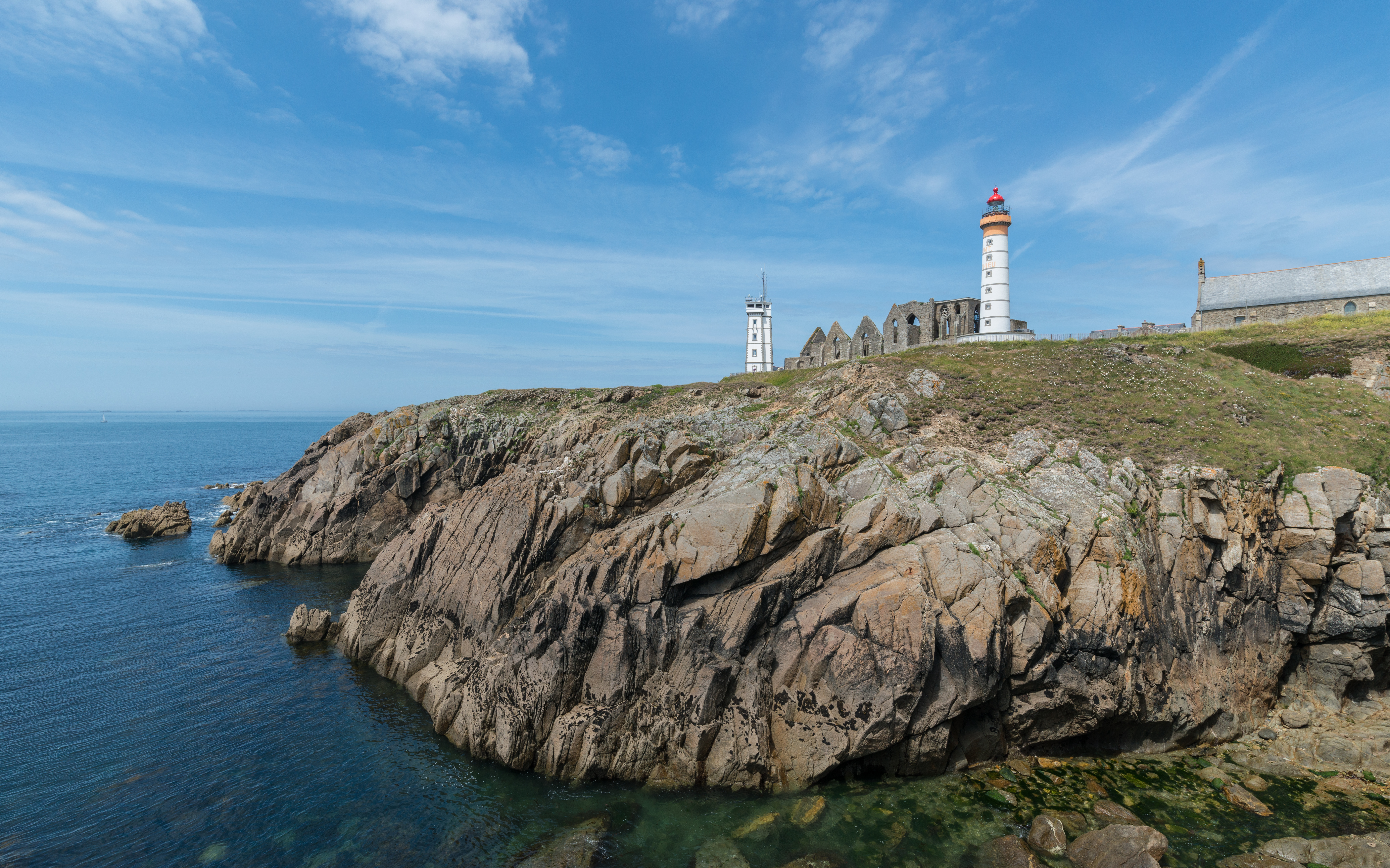 A southeast view of Pointe Saint-Mathieu, the cliffs and the lighthouse